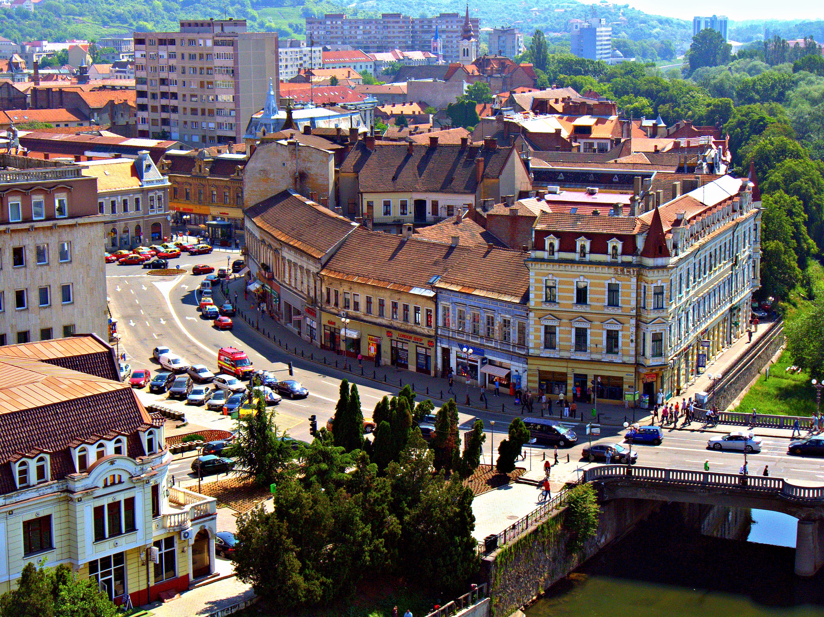 My photostream: My images in GOOGLE